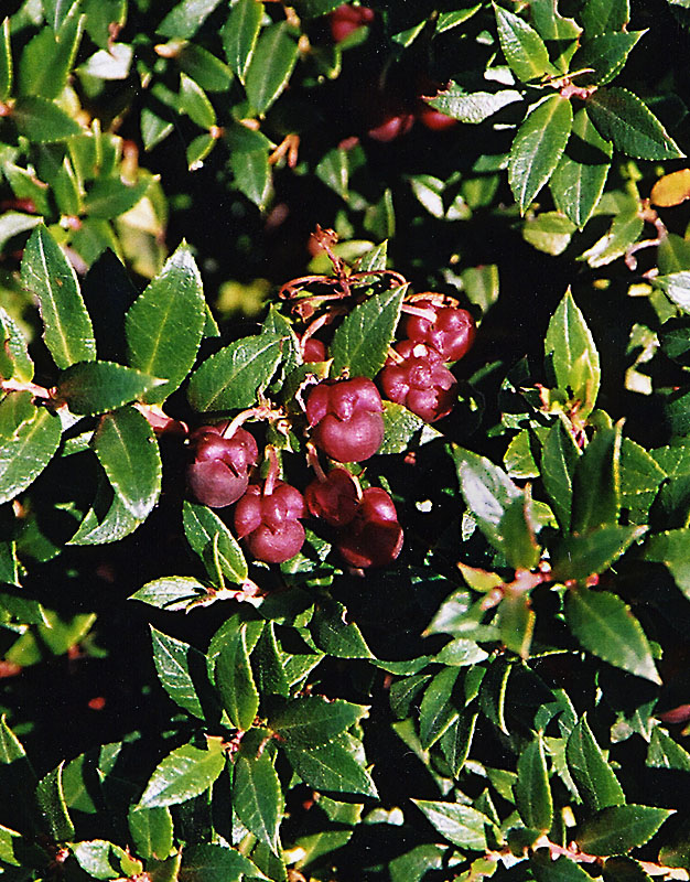 In southern Chile this is known as Murtilla Blanca or as Tau-tau. Here at the University of B.C. Gardens. In context at